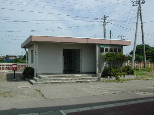 Echigo-Akatsuka Station in Nishi-ku, Niigata city, Niigata Prefecture, Japan